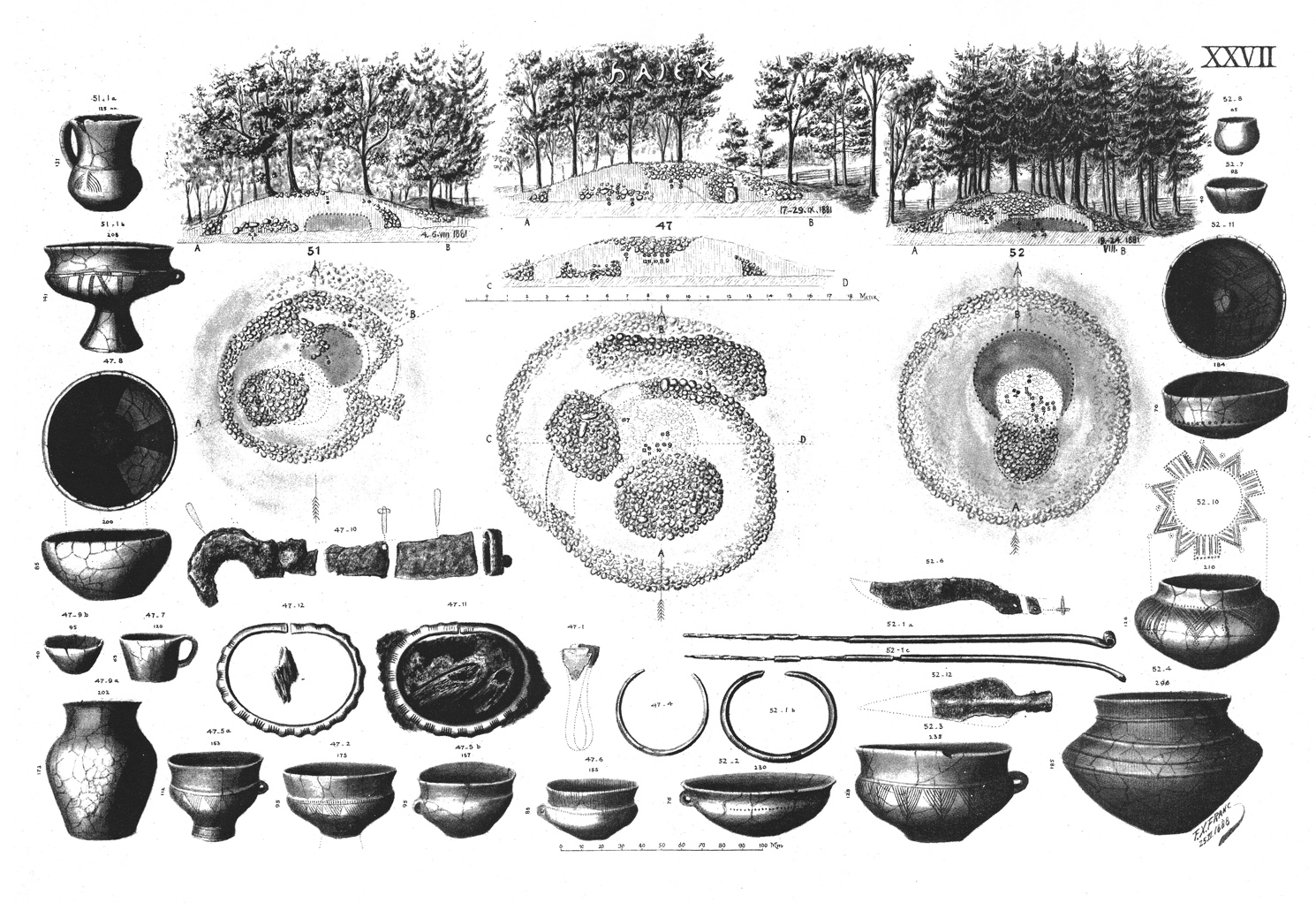 Documentation of the archaeological site Šťáhlavy-Hájek, Czech Republic, form 1888, Tab. XXVII